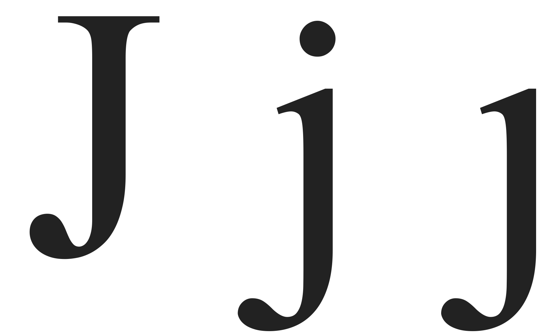 uppercase J on the left; lowercase j in the middle; dotless j on the right in Doulos SIL